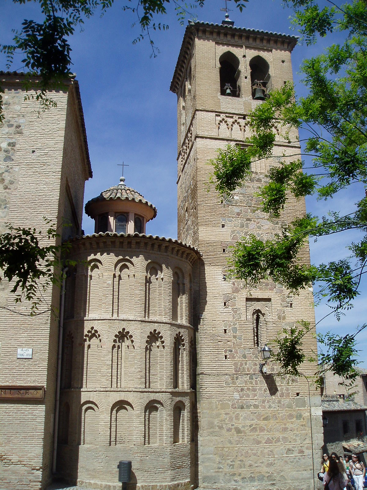 View of the tower and apse of the church of Santa Leocadia, in Toledo (Spain).